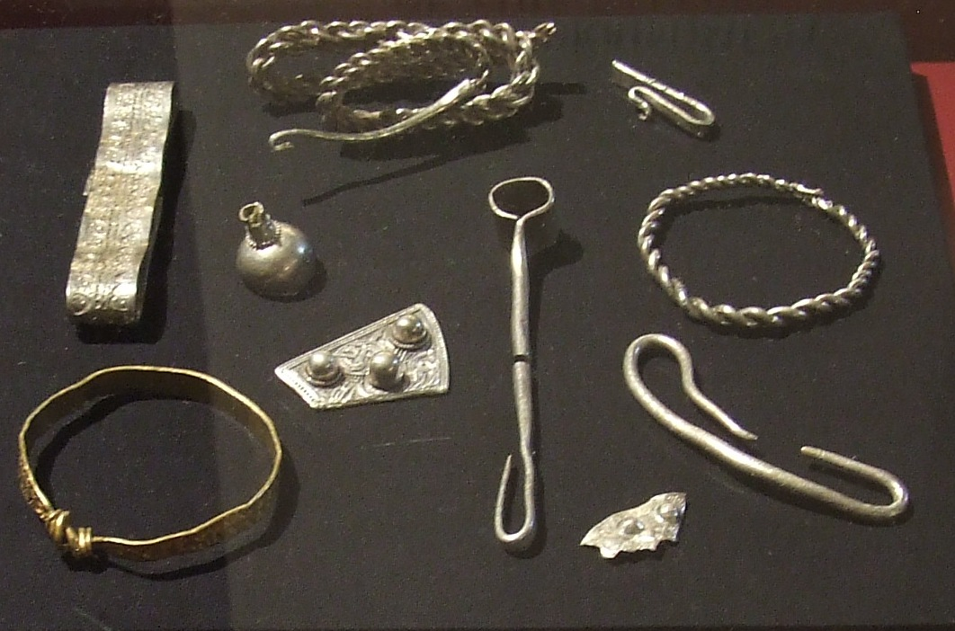 Silver and gold armrings and neckrings and brooch fragments from the Vale of York hoard. Discovered January 2007. Currently in the Yorkshire Museum.